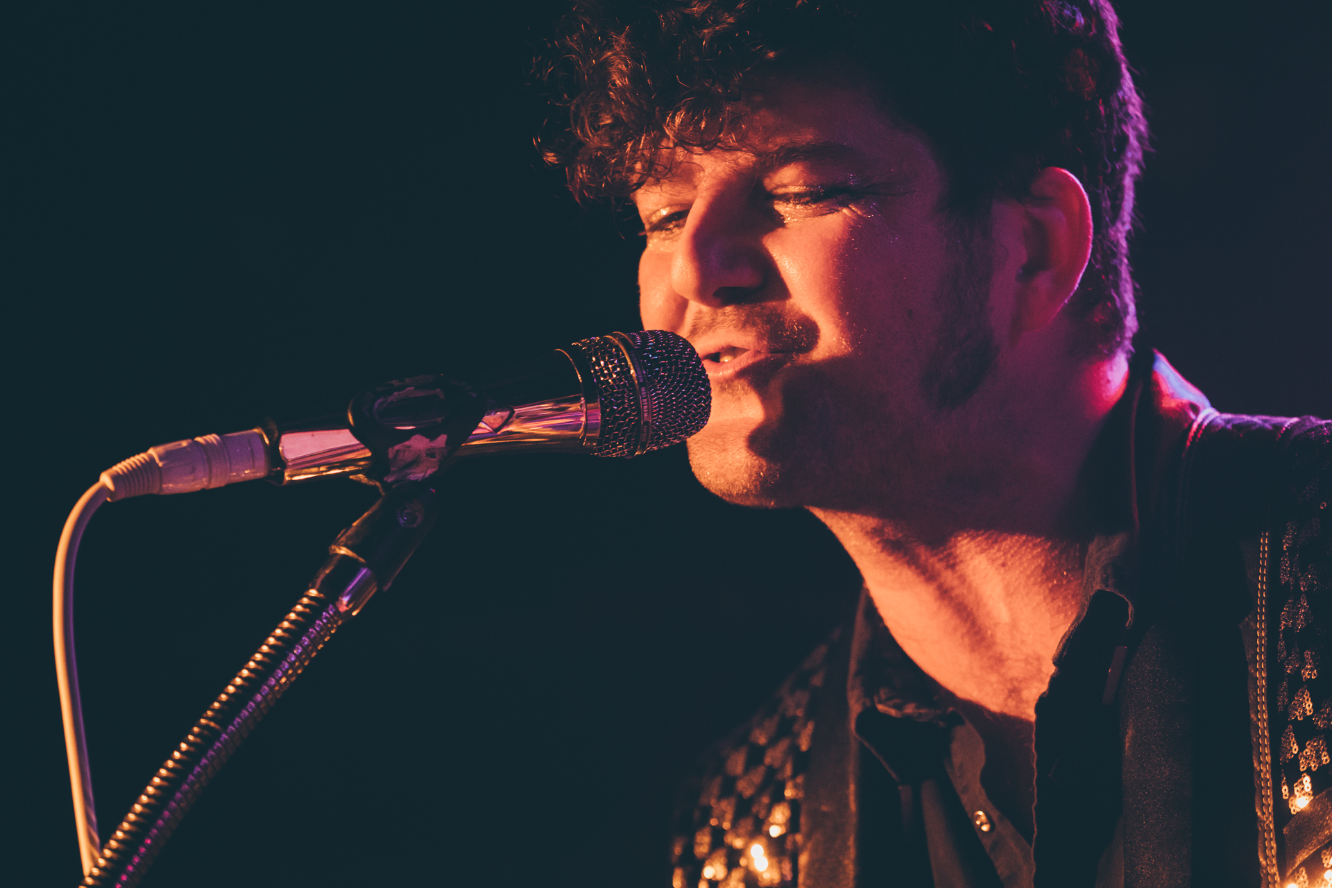 Rob Kolar performing in November 2018.